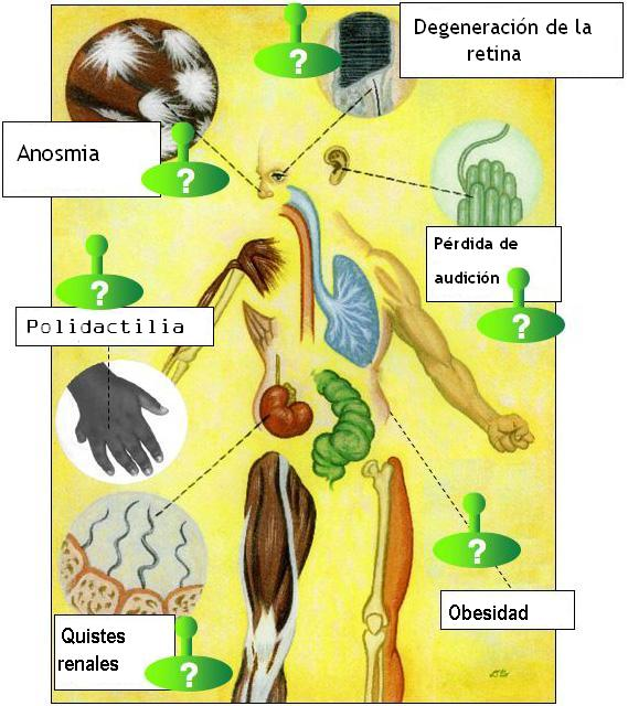 Depiction of the pleiotropic effects of Bardet-Biedl syndrome.